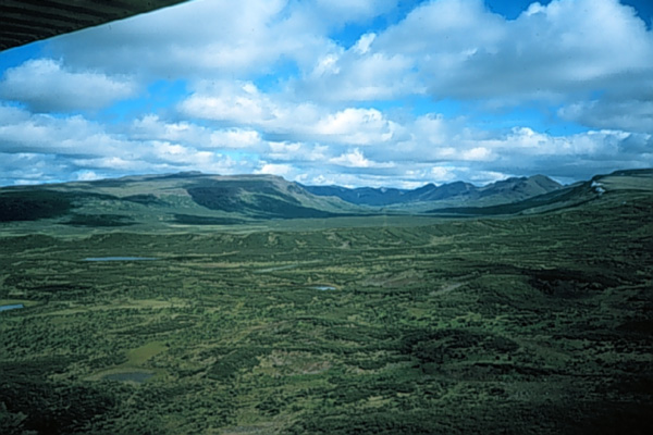 The central dissected caldera of Level Mountain, with extensive elevated plateau in the foreground.